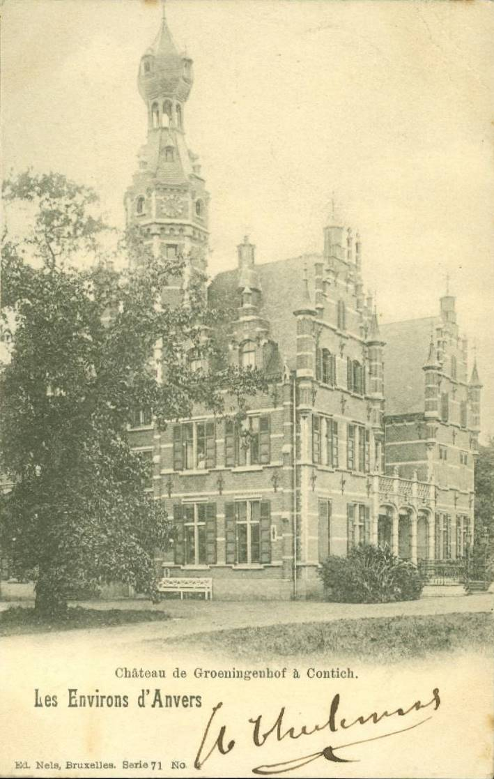 Old Postcard from the "Groeningenhof" from around 1900